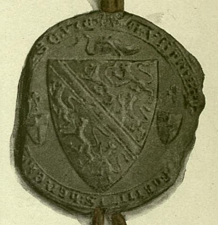 Seal of Humphrey de Bohun, 4th Earl of Hereford